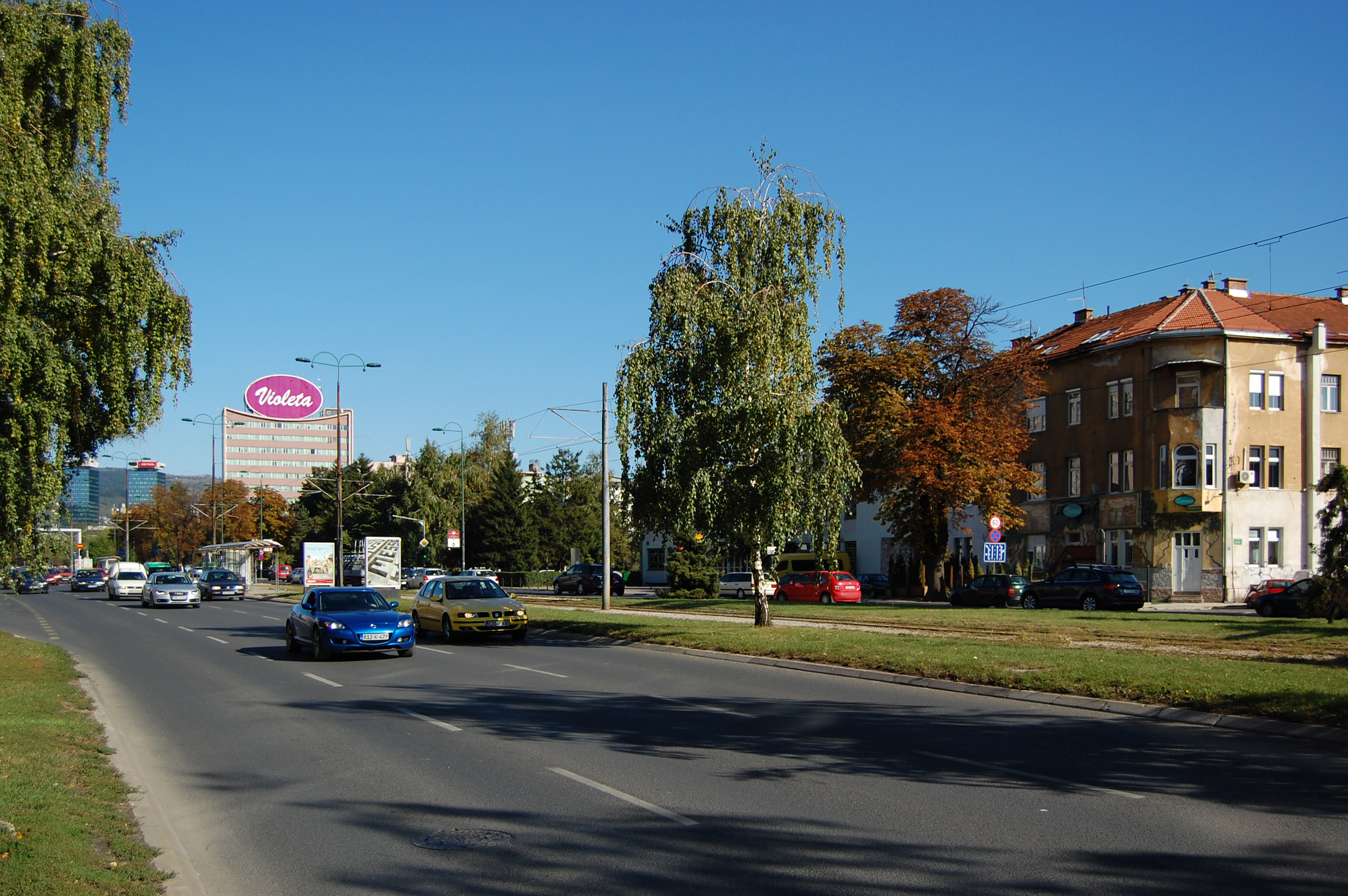 Zmaja do Bosne street